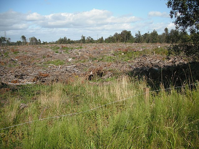 Shewalton Moss Felled area in a conifereous plantation which is very handily placed for the pulp mill.